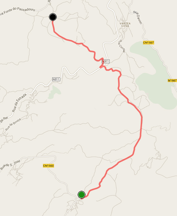 Fafe Rallysprint map. Green point: start; black point: finish.